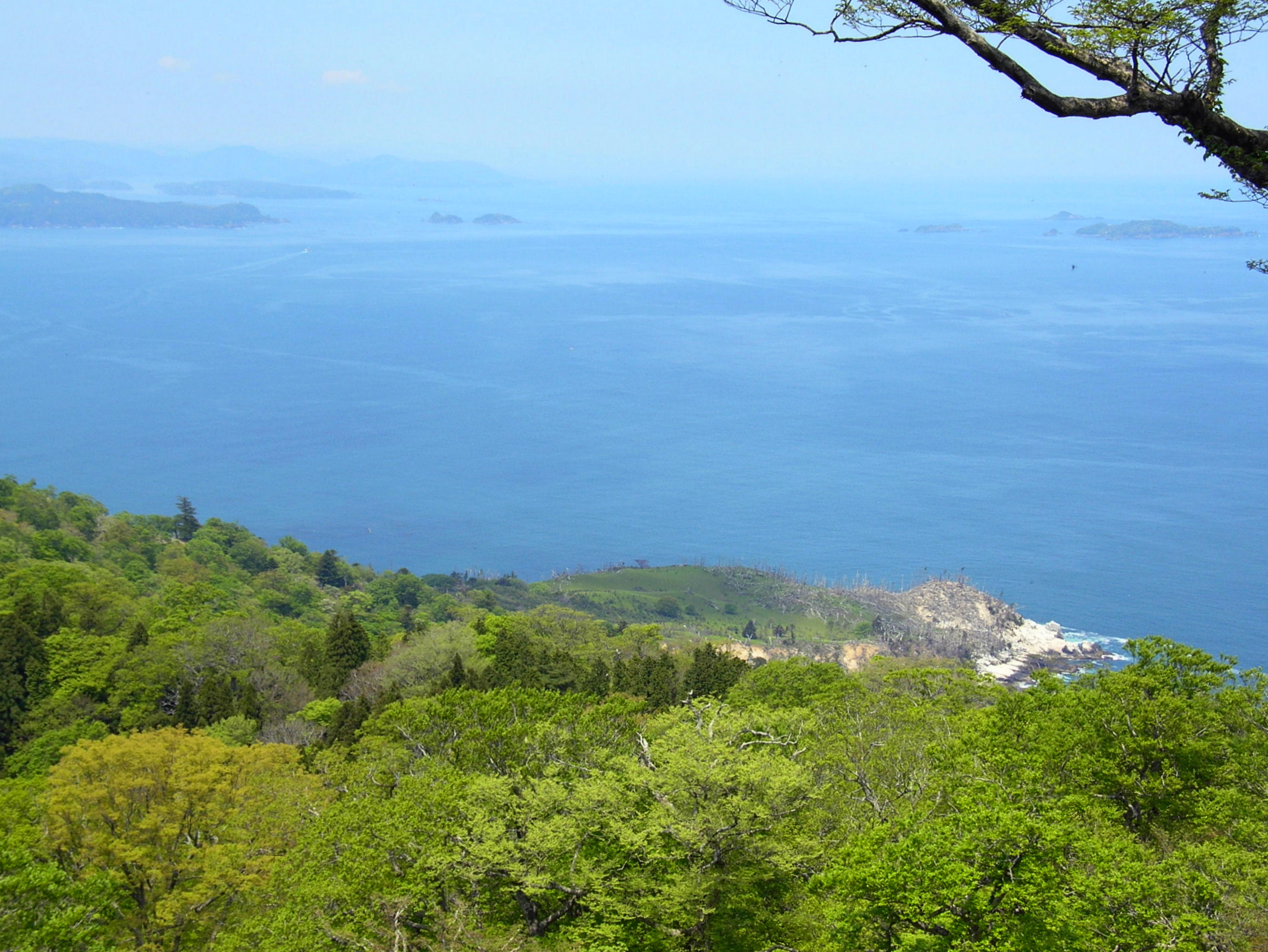 Kinkasan(north side):Minamisanriku,Miyagi-prefecture,Japan